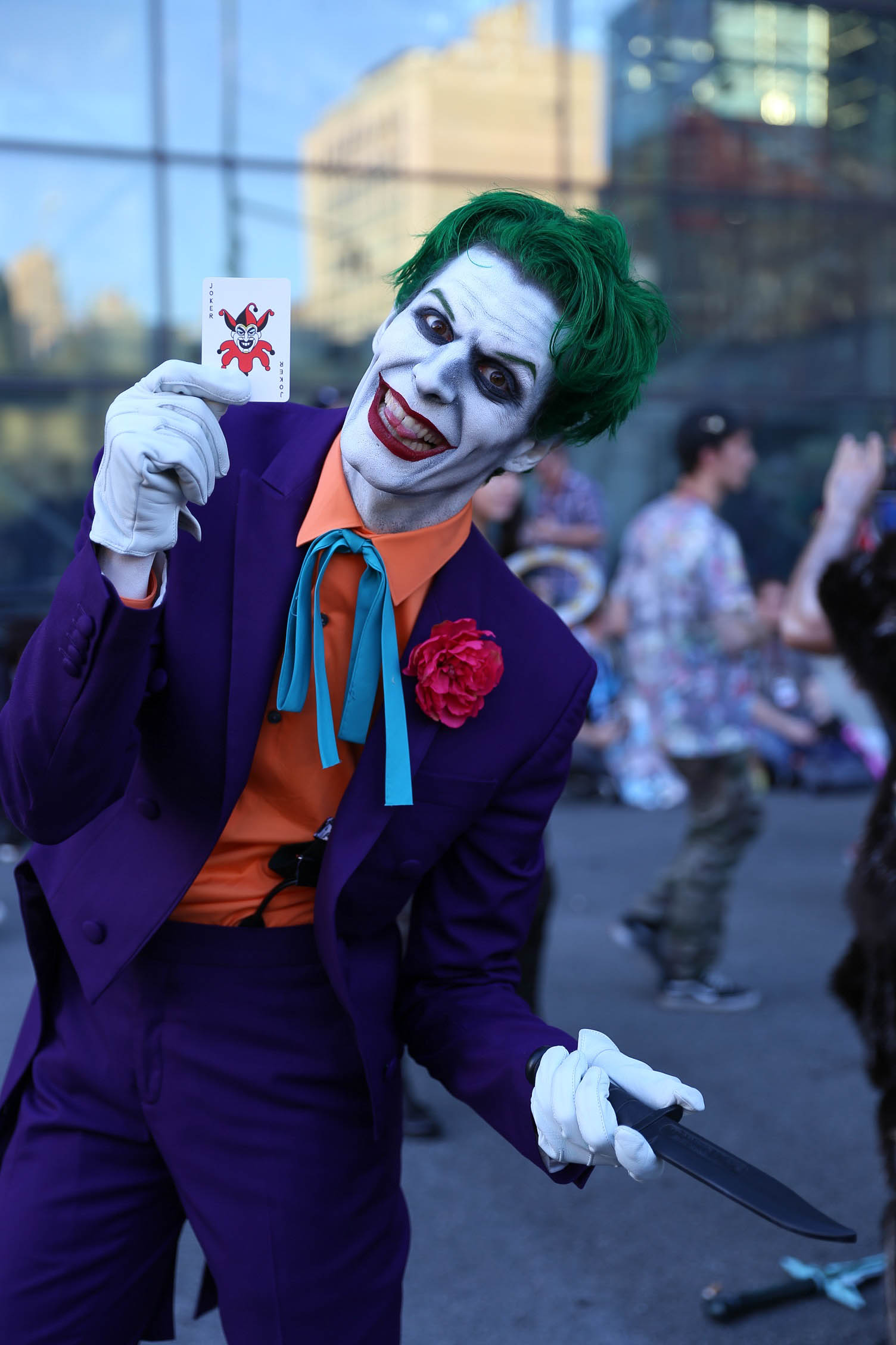 Cosplay at the 2016 New York Comic Con.